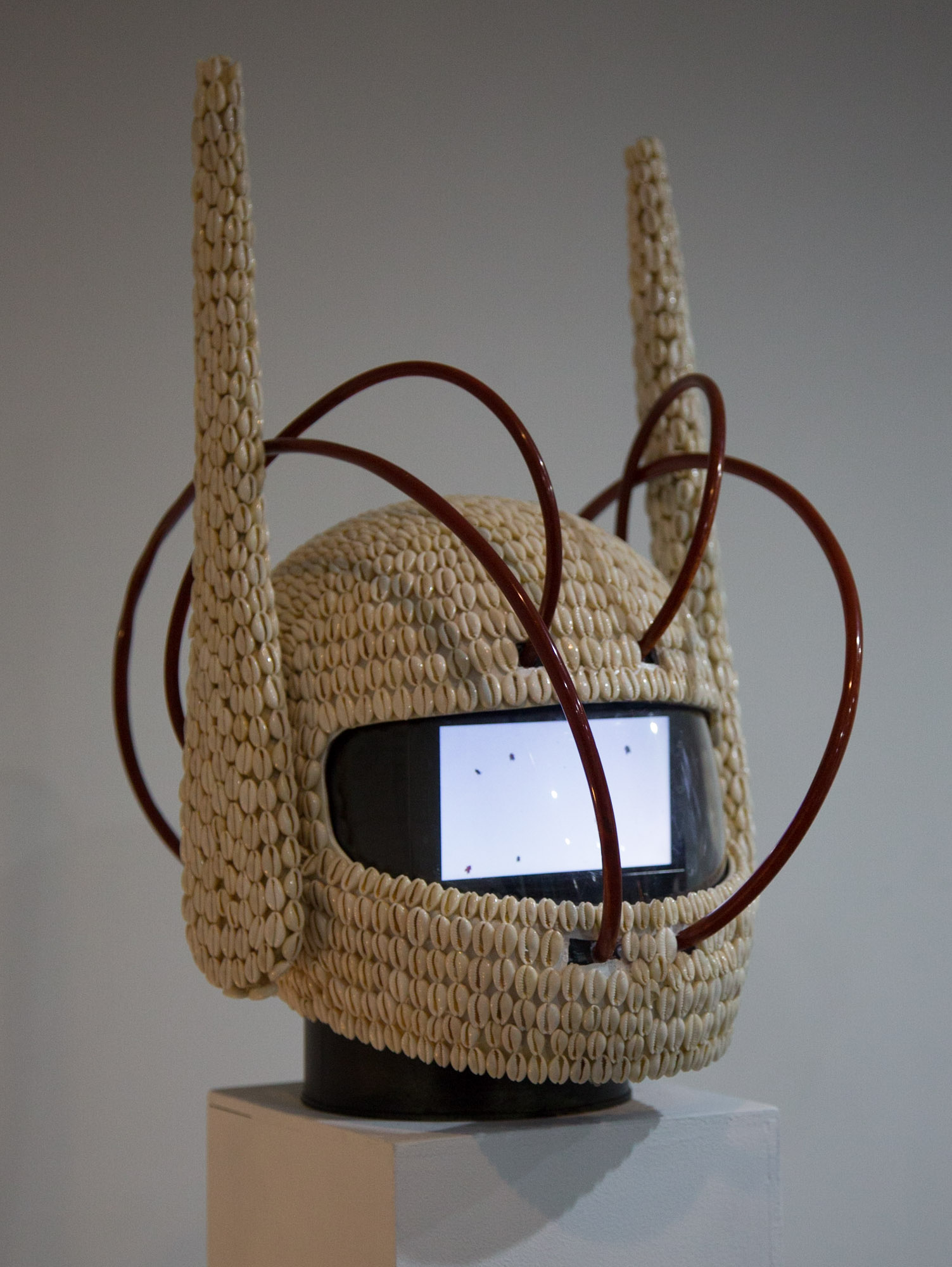 Artwork by Emo de Medeiros